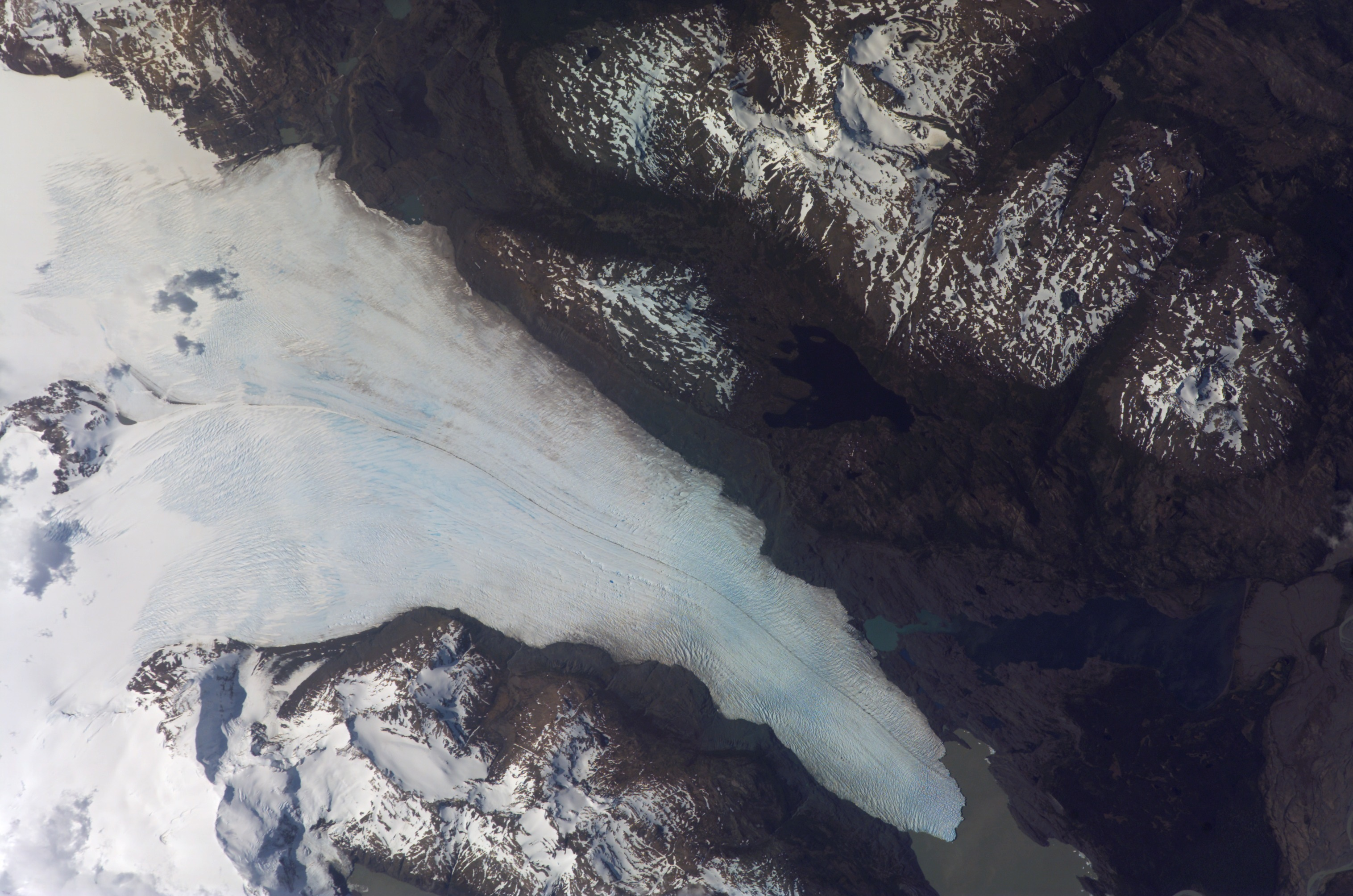 Tyndall Glacier, located in the Torres del Paine National Park in Chile, is featured in this image photographed by an Expedition 16 crewmember on the International Space Station. This glacier, which has a measured total area of 331 square kilometers and length of 32 kilometers (1996 measurements), begins in the Patagonian Andes Mountains to the west and terminates in Lago Geikie. A medial moraine is visible in the center of the glacier, extending along its length (center left).